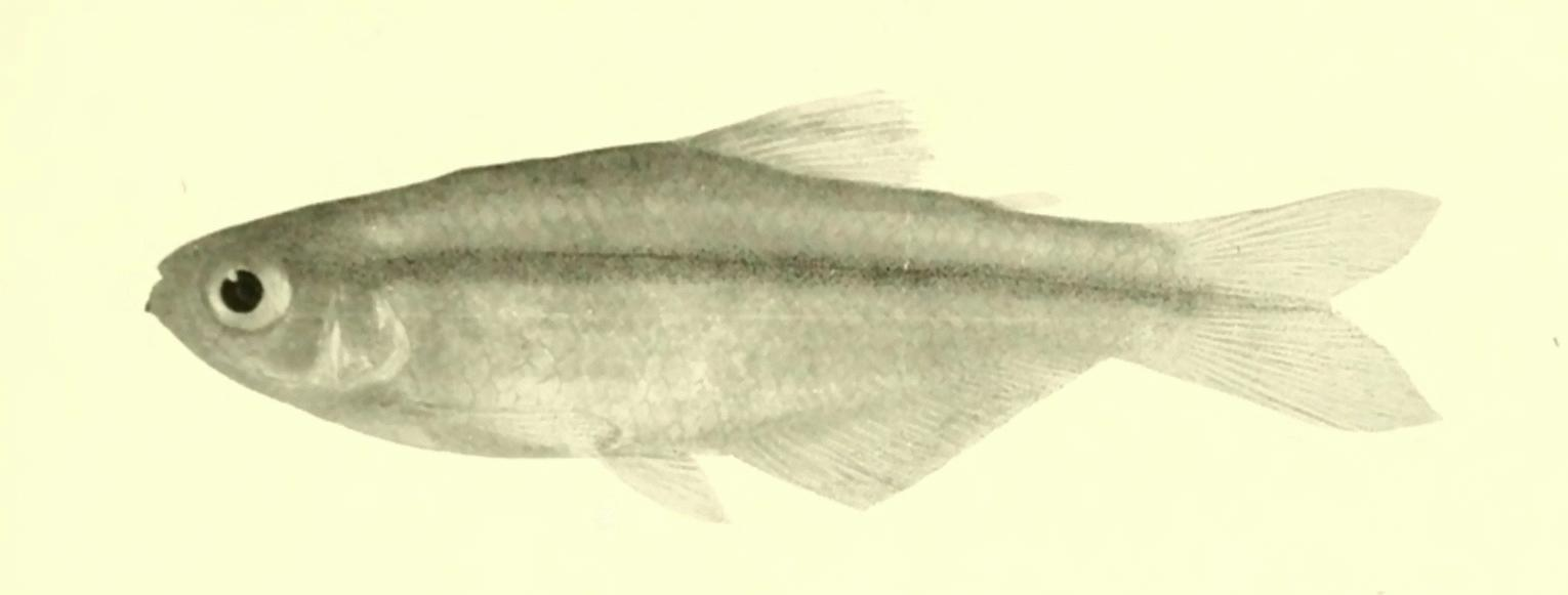 Annals of the Carnegie Museum - Hyphessobrycon melanopleurus Cut-out from original (Annals of the Carnegie Museum (1911-1913) (18413061895).jpg) shown below